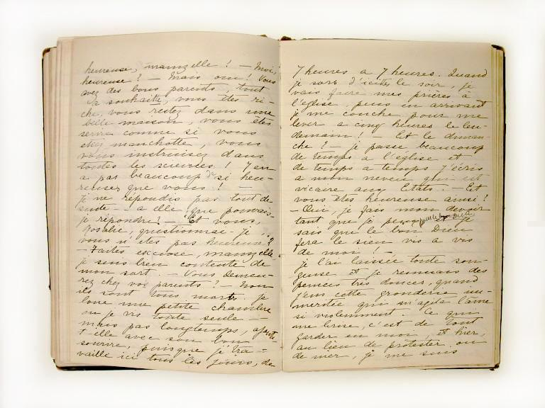 Private journal, Diary of Henriette Dessaulles, 1874, Ink on paper, 21 x 14 cm